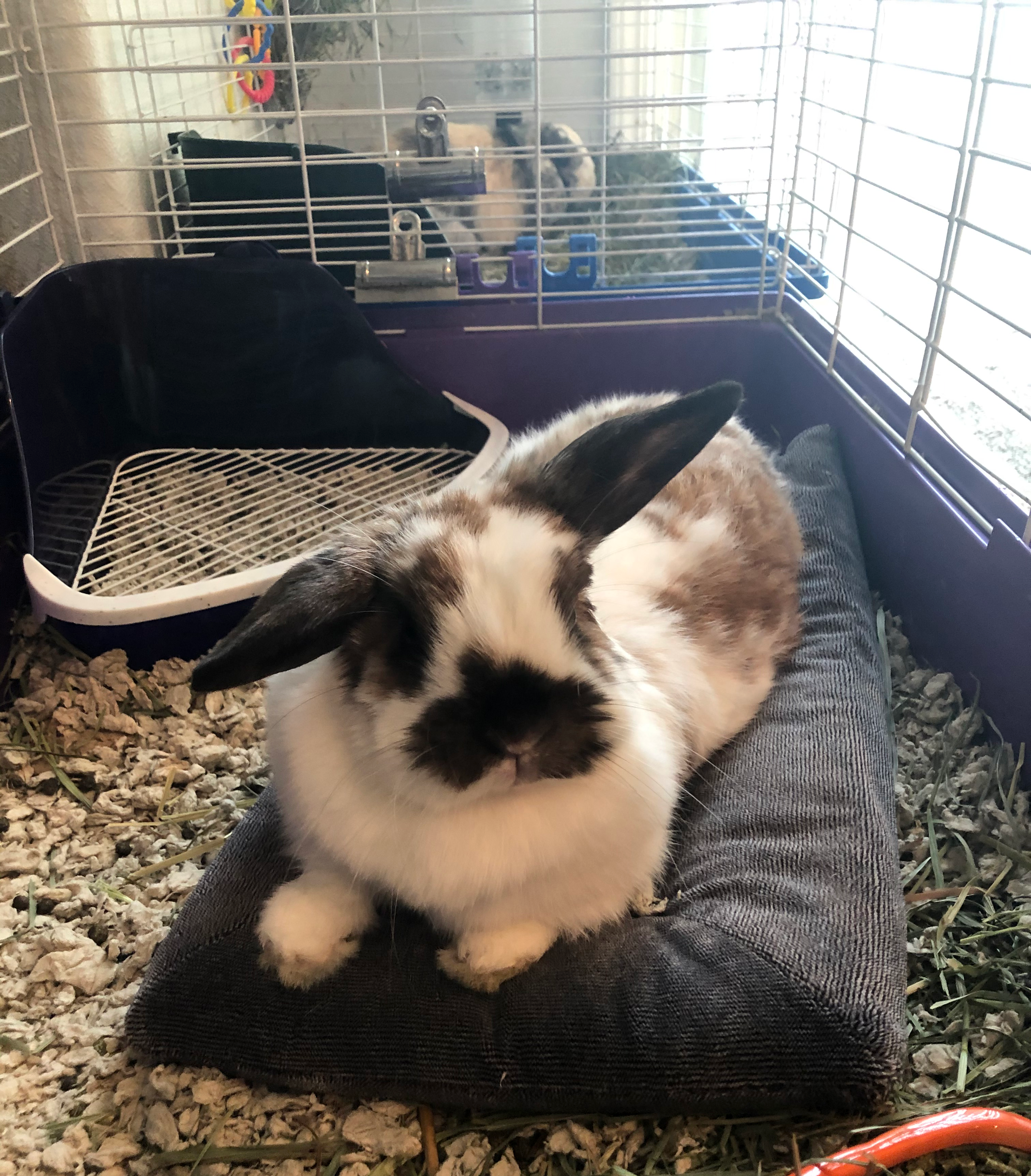 A Holland Lop that is resting with one ear up and one ear down, demonstrating the ability of the Holland Lop to adjust its ears for distant sounds.